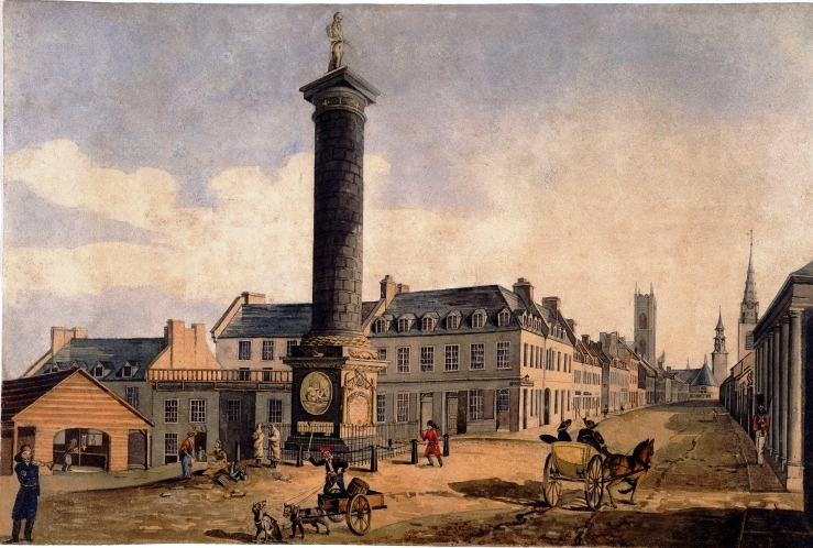 Nelson's Monument, Montreal, Notre-Dame Street Looking West